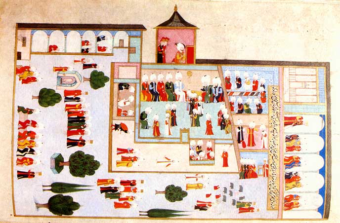 The Sultan following the cabinet session of the Imperial Council or Diwan-i Hümayun. Ottoman miniature painting from the Hünername. Topkapı Sarayı Müzesi, Istanbul (Inv. 1523/24)